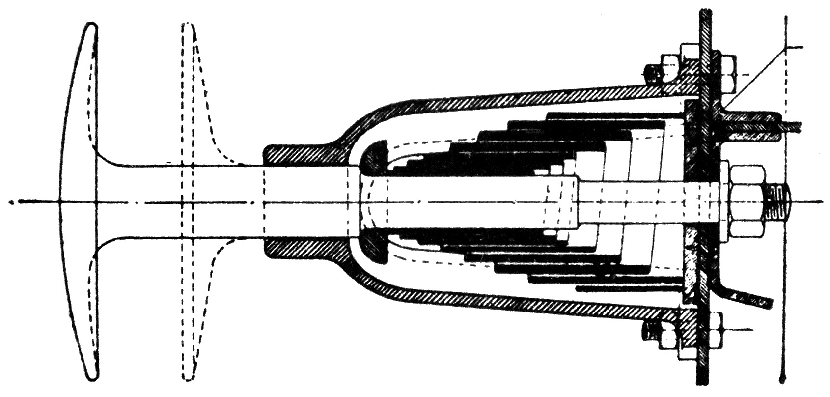 A buffer of a railway coach, as pictured in Otto's Encyclopedia (Ottův slovník naučný, 1908).